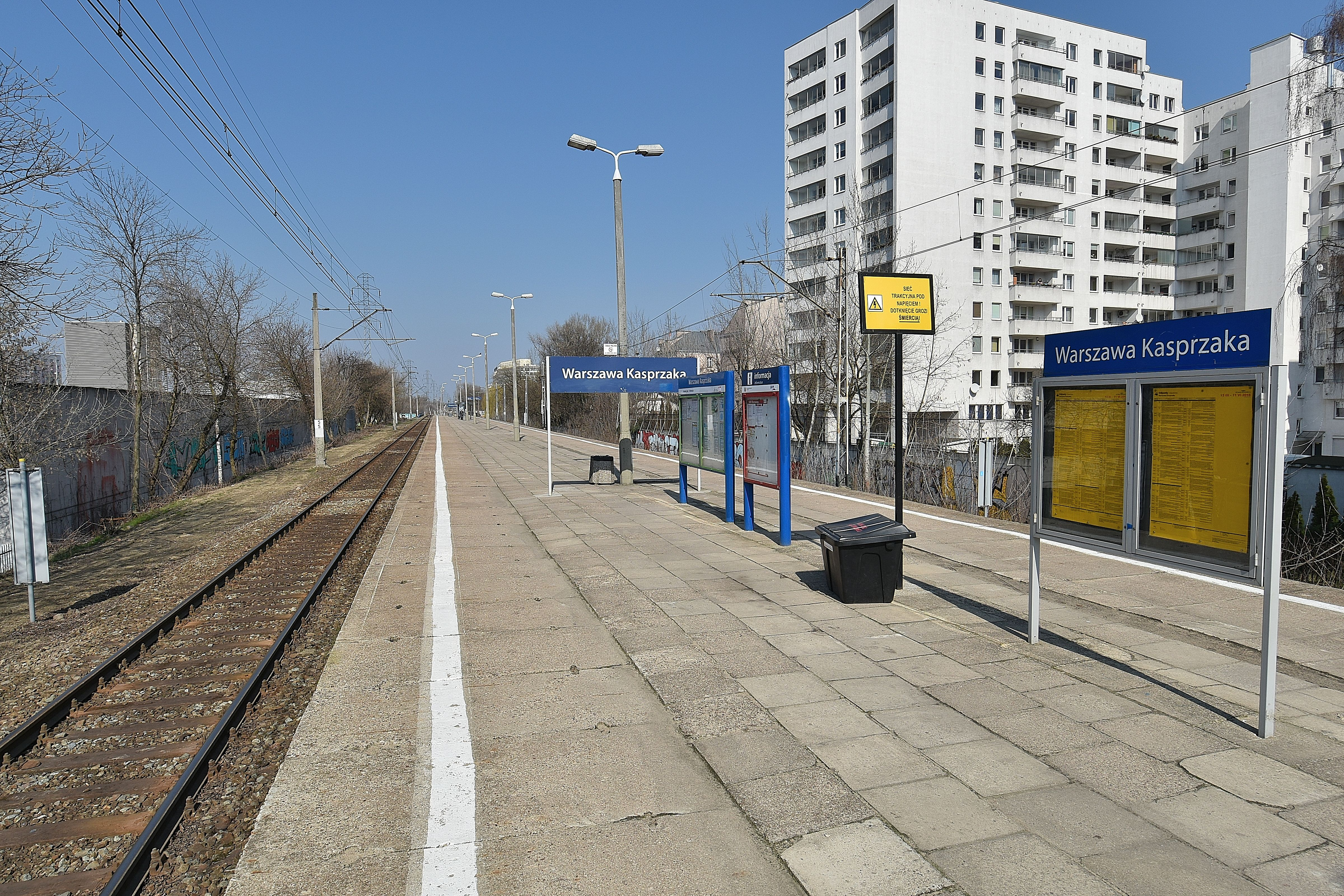 Warszawa Kasaprzaka railway station in Warsaw